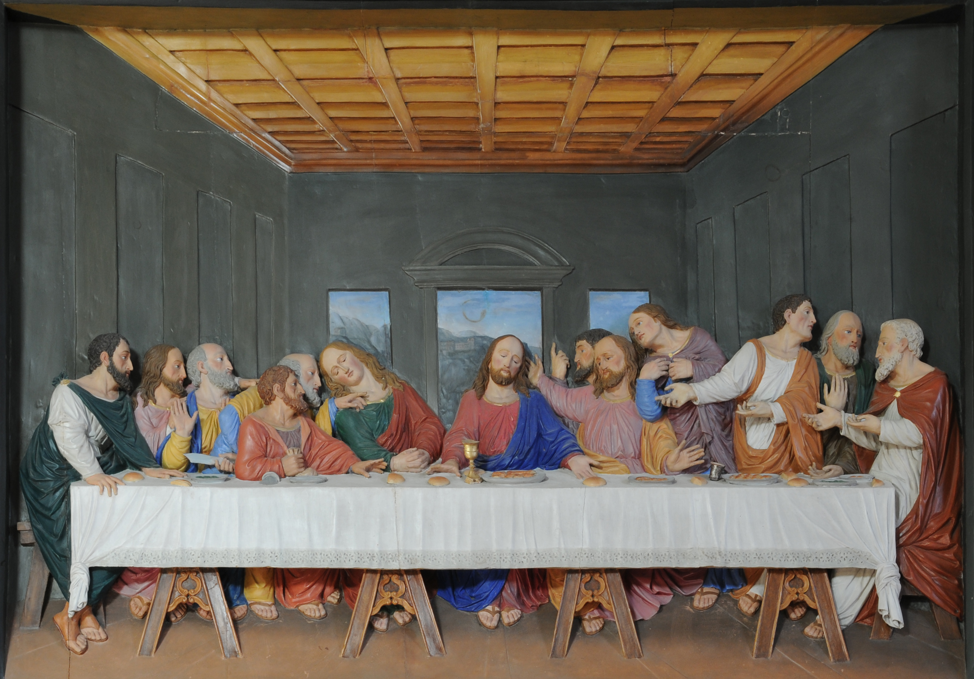 Last supper, polychromed woodcarved relief by Peter Nocker after Leonardo da Vinci